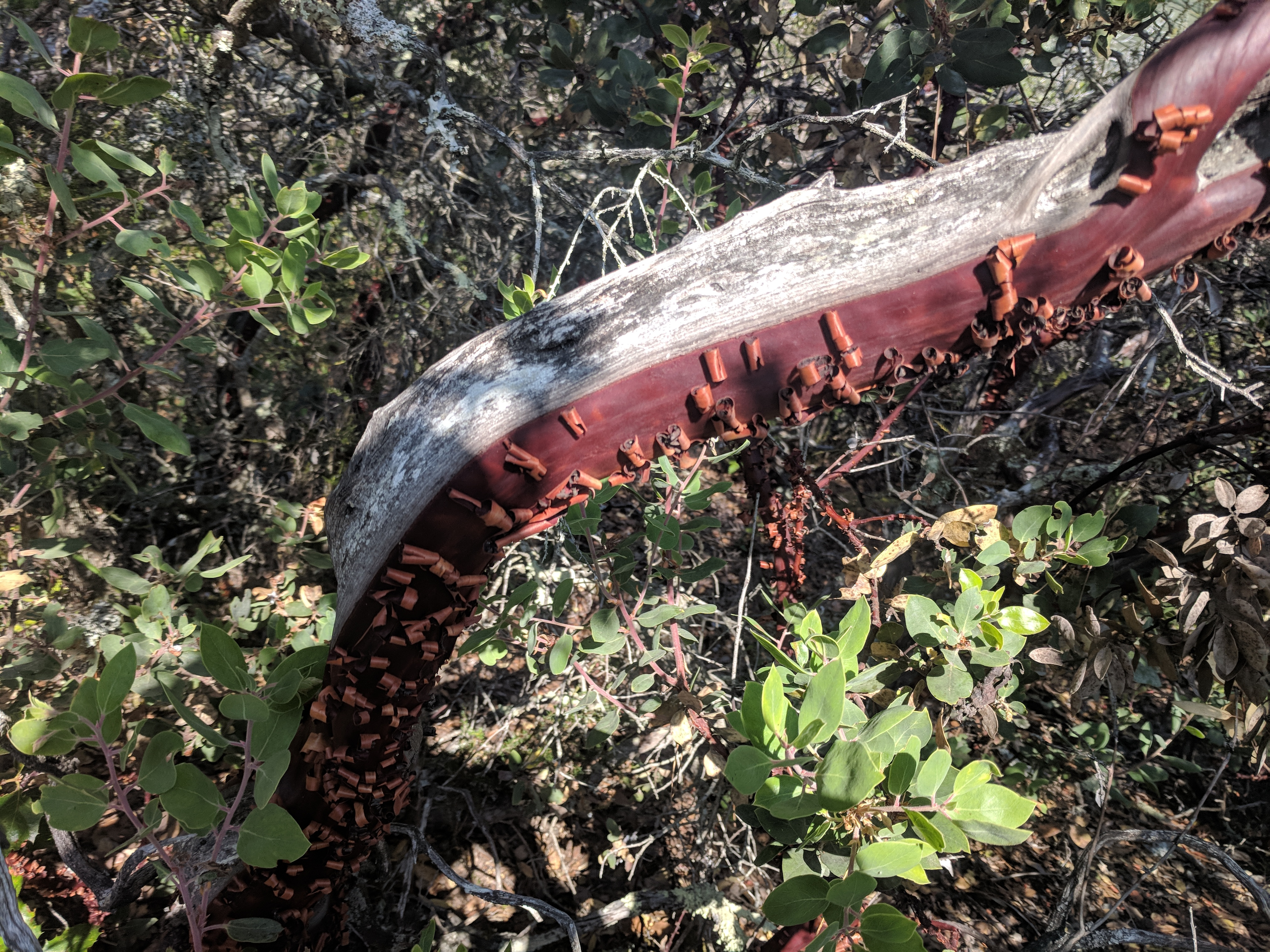 A photo of Manzanita, with bark peeling off. Taken on the slopes of Mount Tamalpais, California.